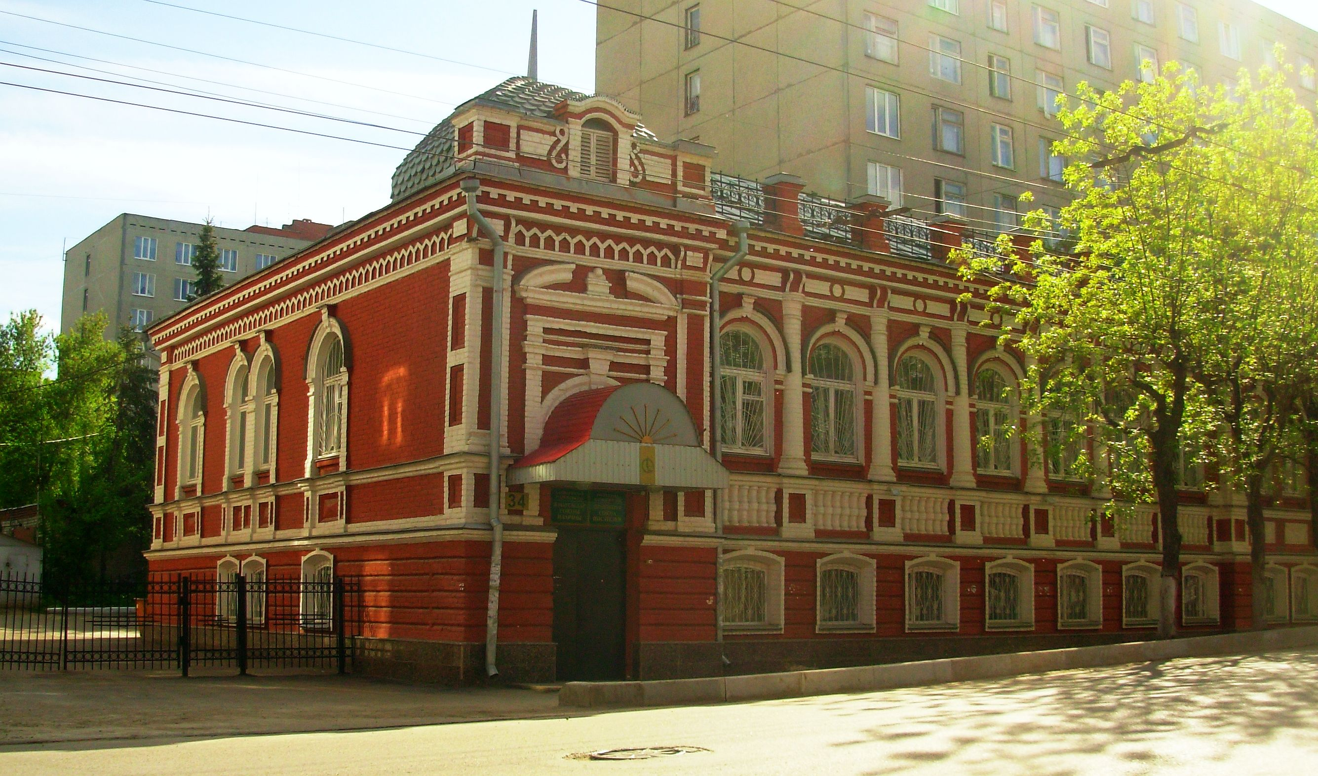 Ufa 2013